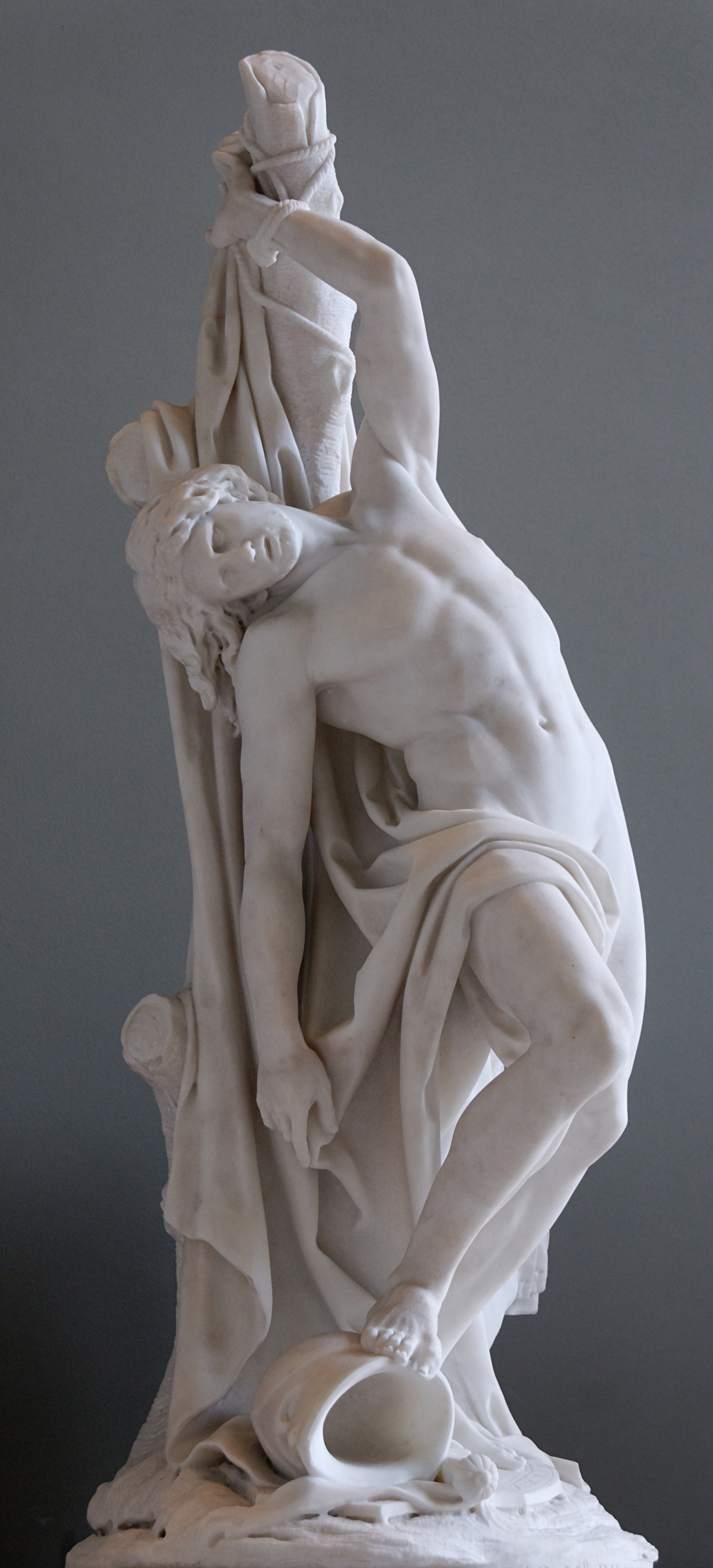 St. Sebastian. Marble, reception piece for the French Royal Academy, 1779.